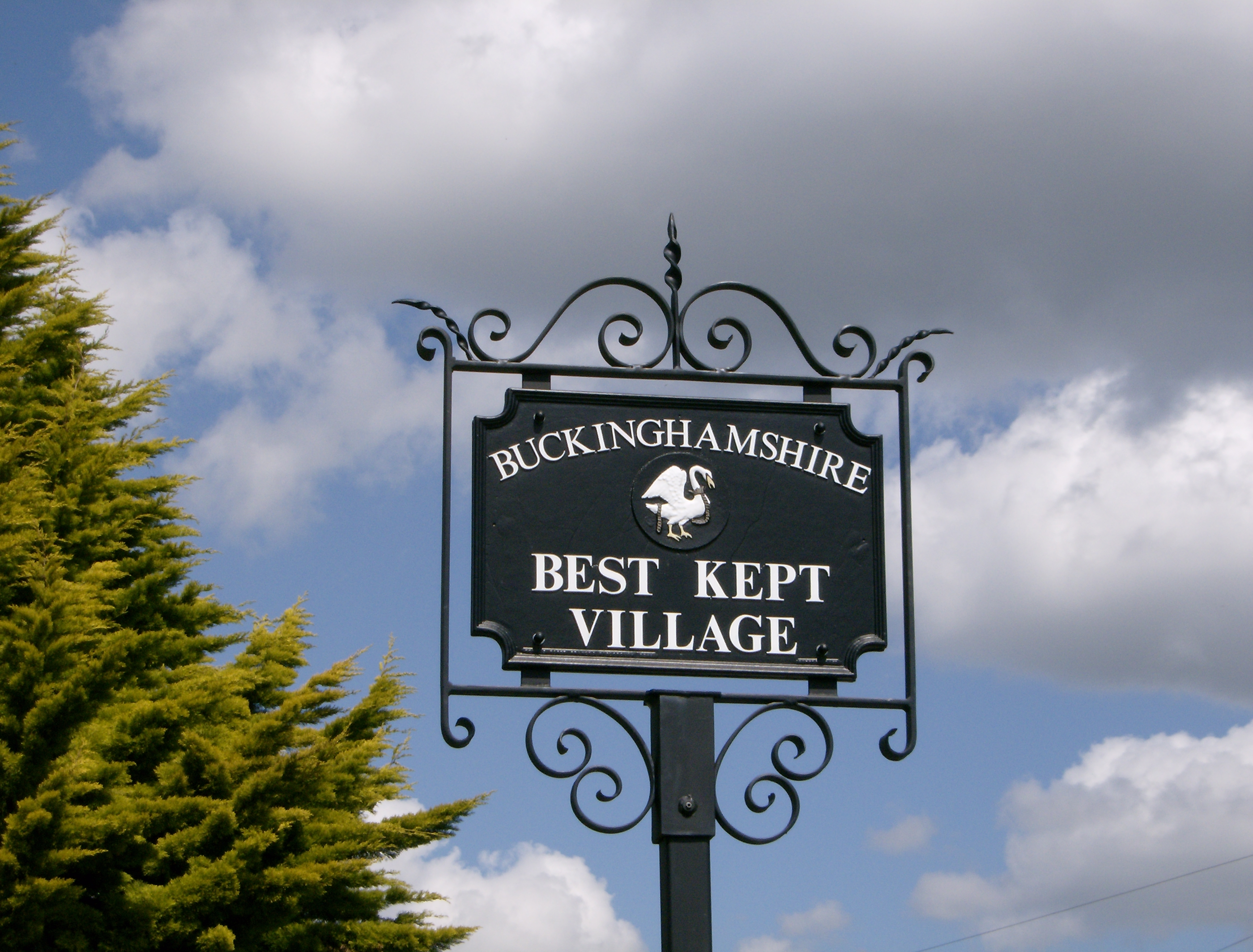 A best kept village sign in Buckinghamshire